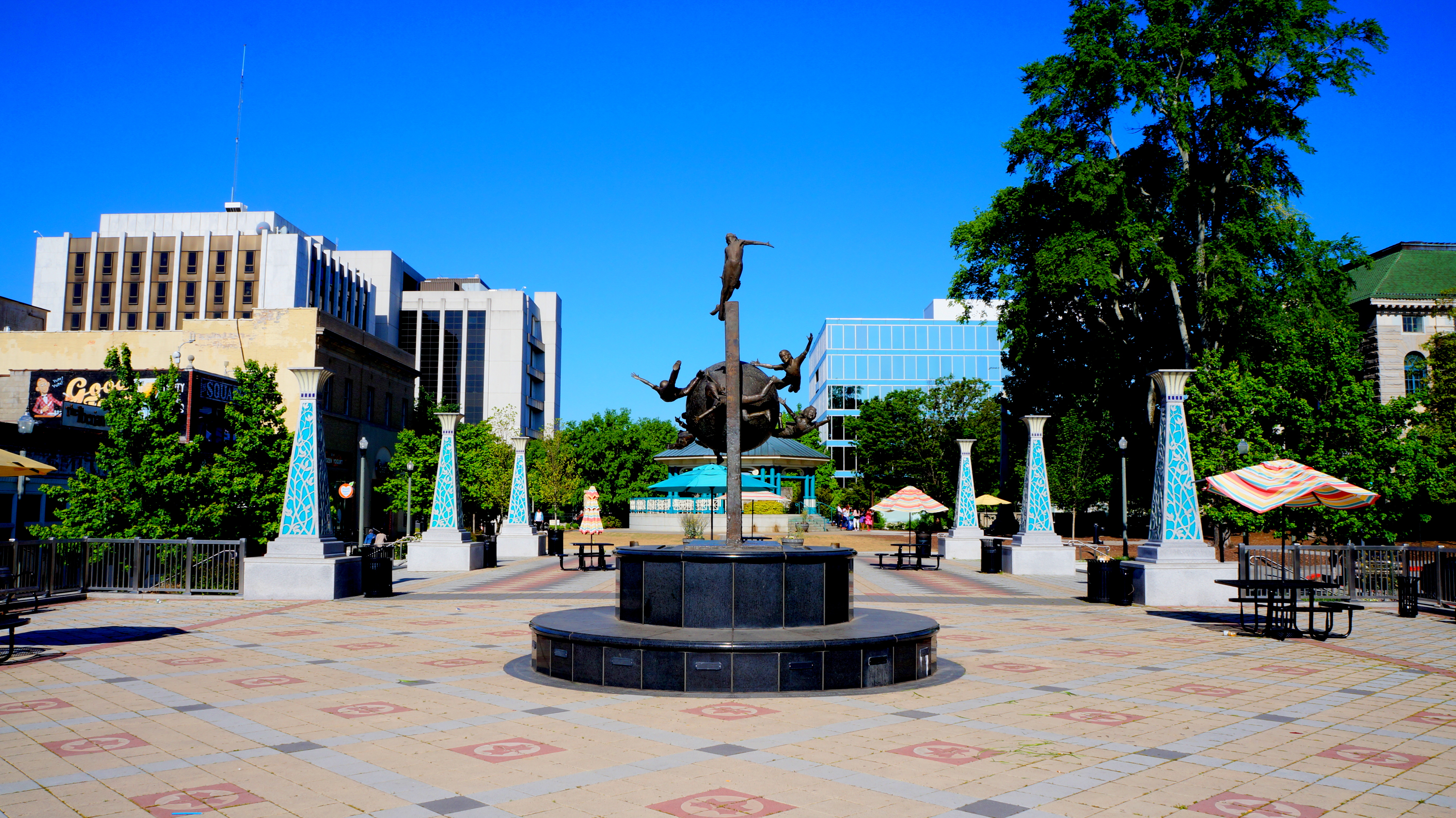 Downtown Decatur, Georgia, USA